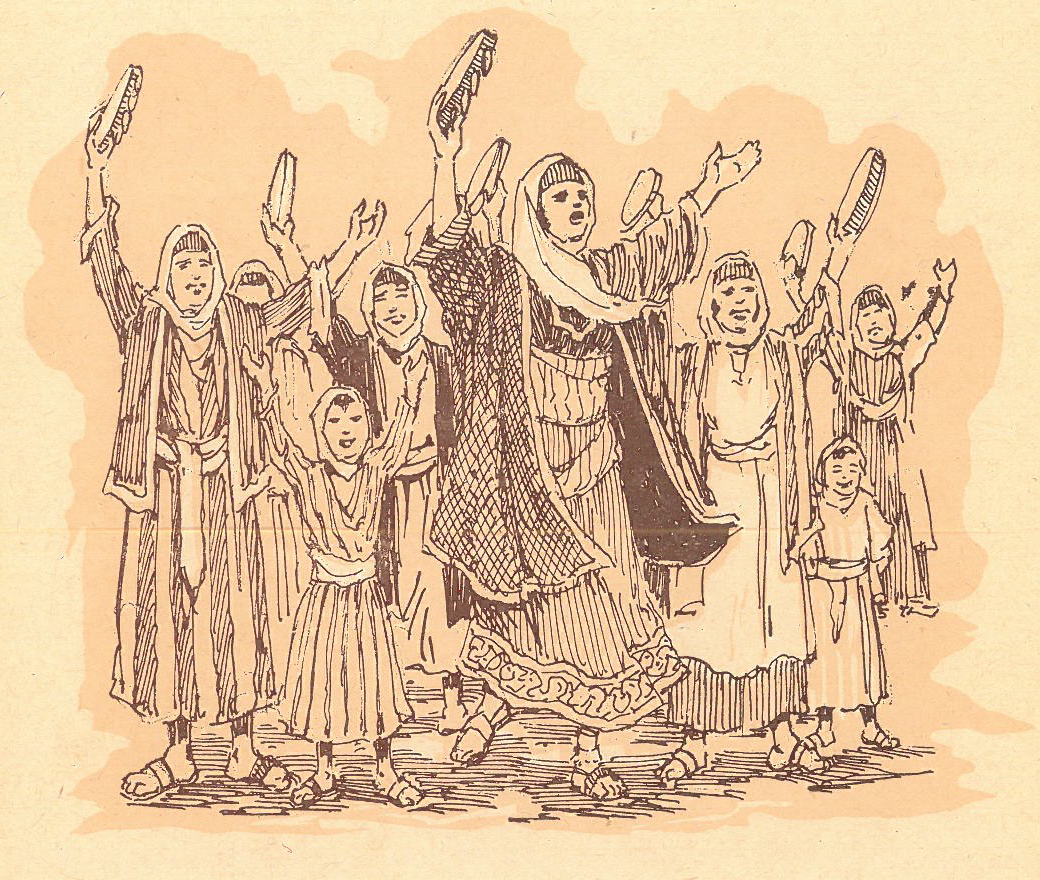 Drawing of some people of Yathrib welcoming prophet Muhammed.